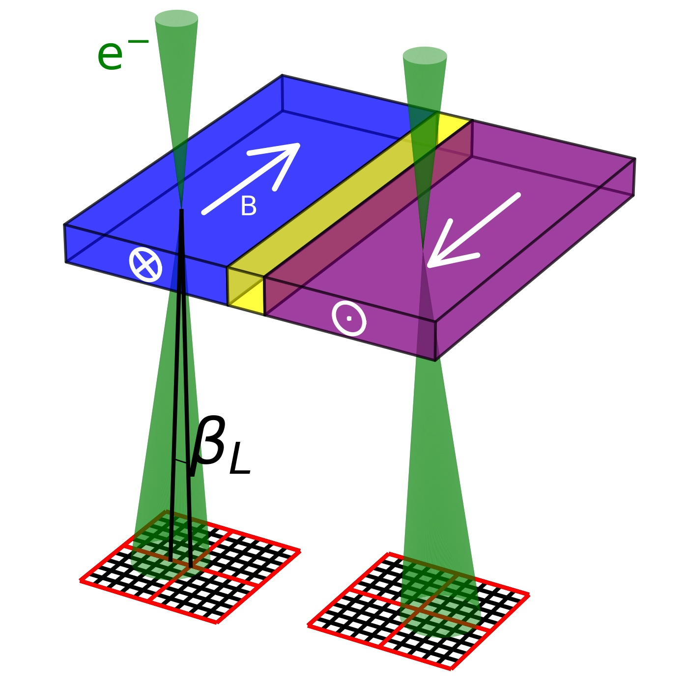 In Scanning Transmission Electron Microscopy (STEM) it is possible image magnetic fields using a technique called differential phase contrast, which relies on the electron beam being deflected by the magnetic field. This figure shows a schematic of this, with an electron beam passing through two different regions in a material, where the magnetic domains point in opposite directions. This leads to a beam deflection which can be imaged on a camera, represented by the grid patterns towards the bottom of the plot. In a real STEM the electron beam would be scanning in a raster pattern across the material, and the detector would be far away from the material.